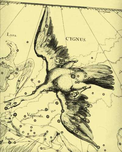 This is a drawing of the constellation Cygnus by John Hevelius of 1690. Copyright © 2003 Torsten Bronger.